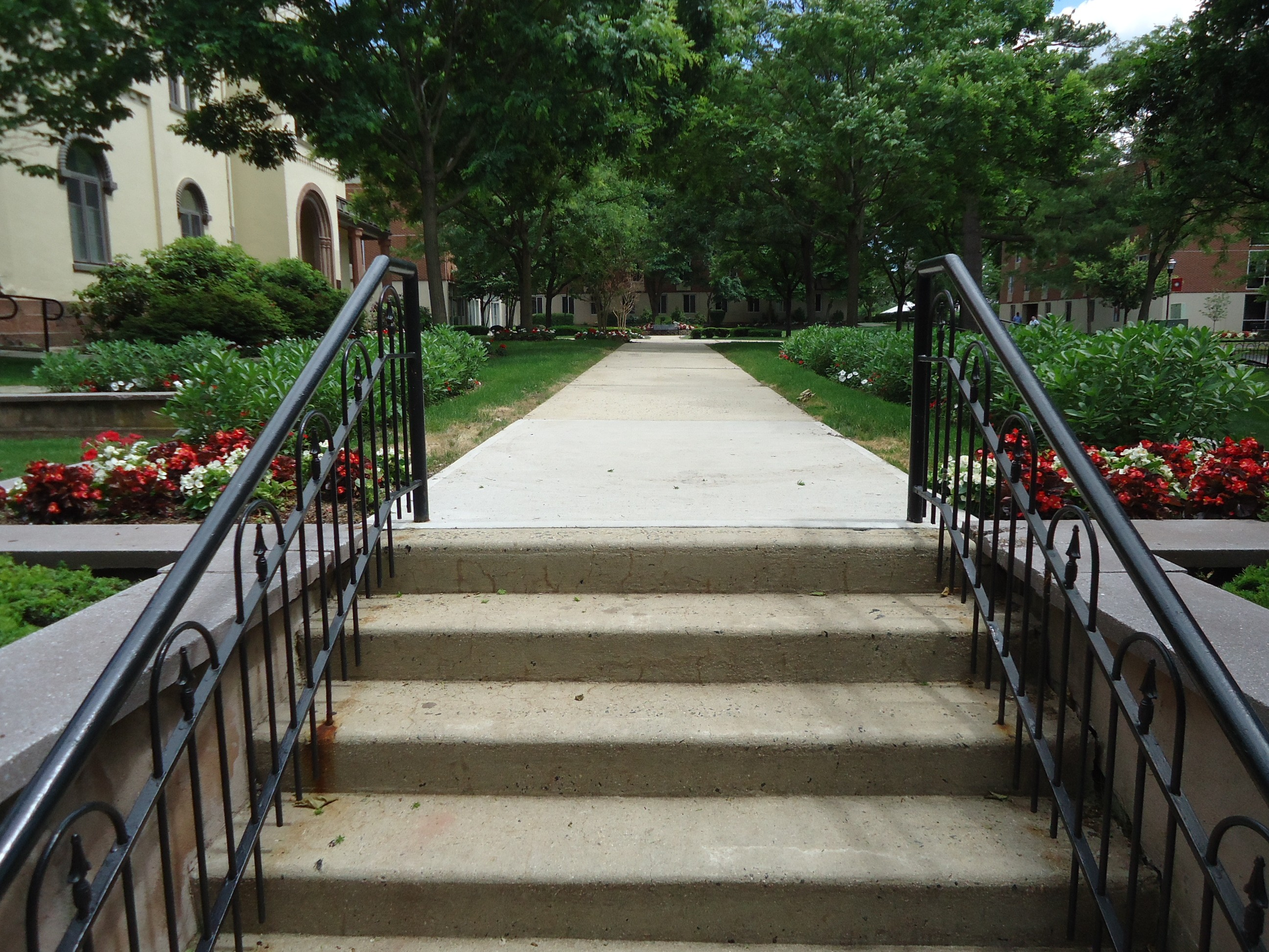 Stairs to walkway on the College Avenue campus of Rutgers University.